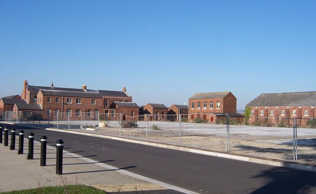 Disused buildings at Priddys Hard These old buildings are still awaiting their fate. Demolition or refurbishment? It will be interesting to find out.